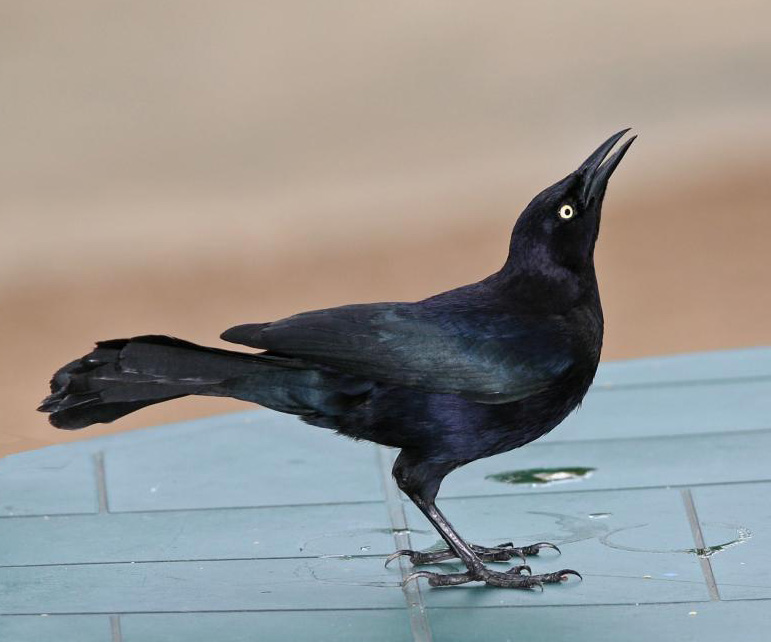 Male Carib Grackle in Barquisimeto, Venezuela